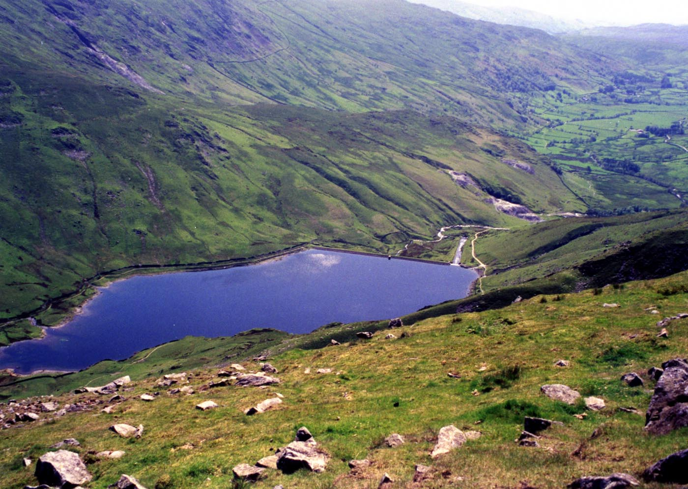 Personal picture taken by Mick Knapton